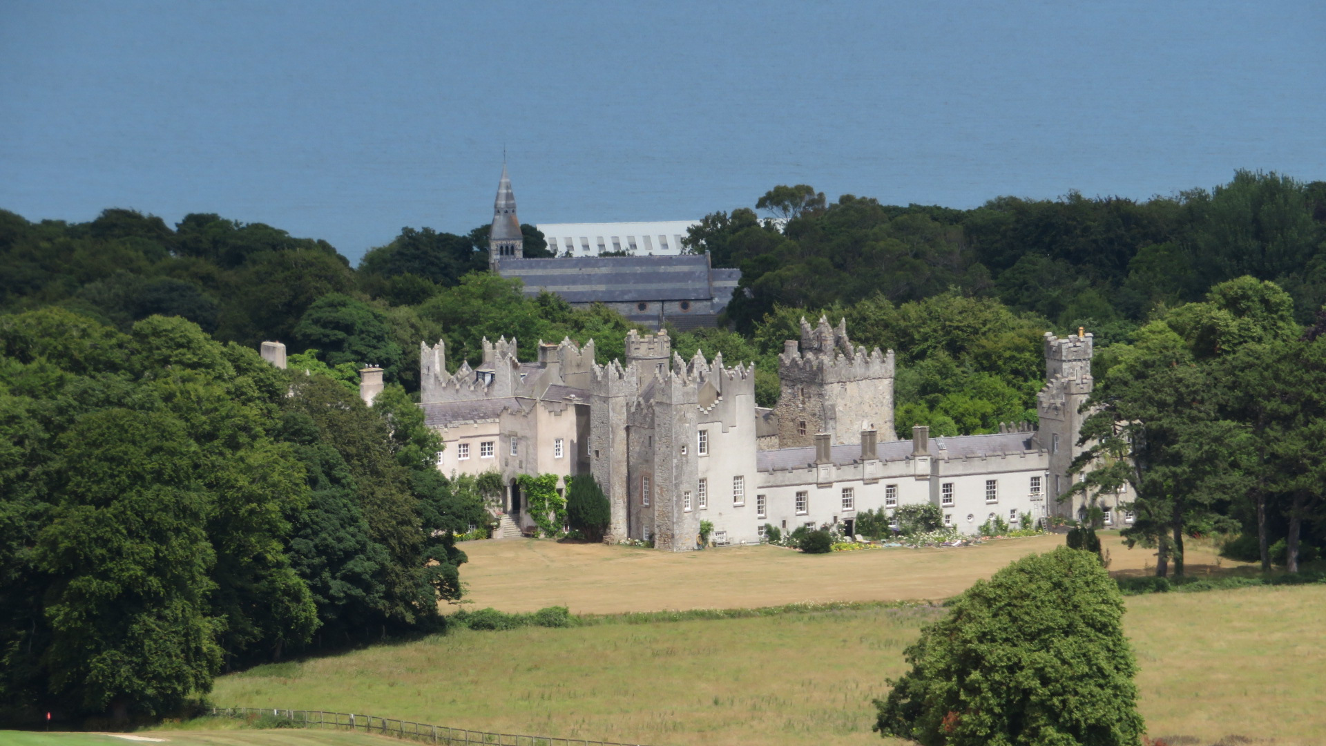 Howth Castle in Dublin viewed from a rocky outcrop on Howth Hill. The ground appears tawnier than usual because of drought.